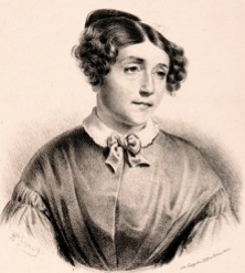 Pauline Duchambge